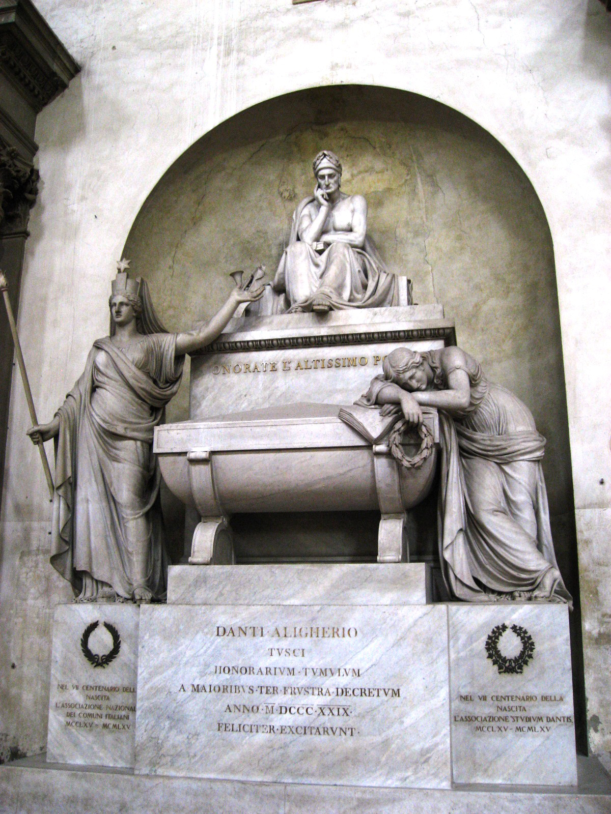 Cenotaph of Dante Alighieri in the Basilica of Santa Croce in Florence.